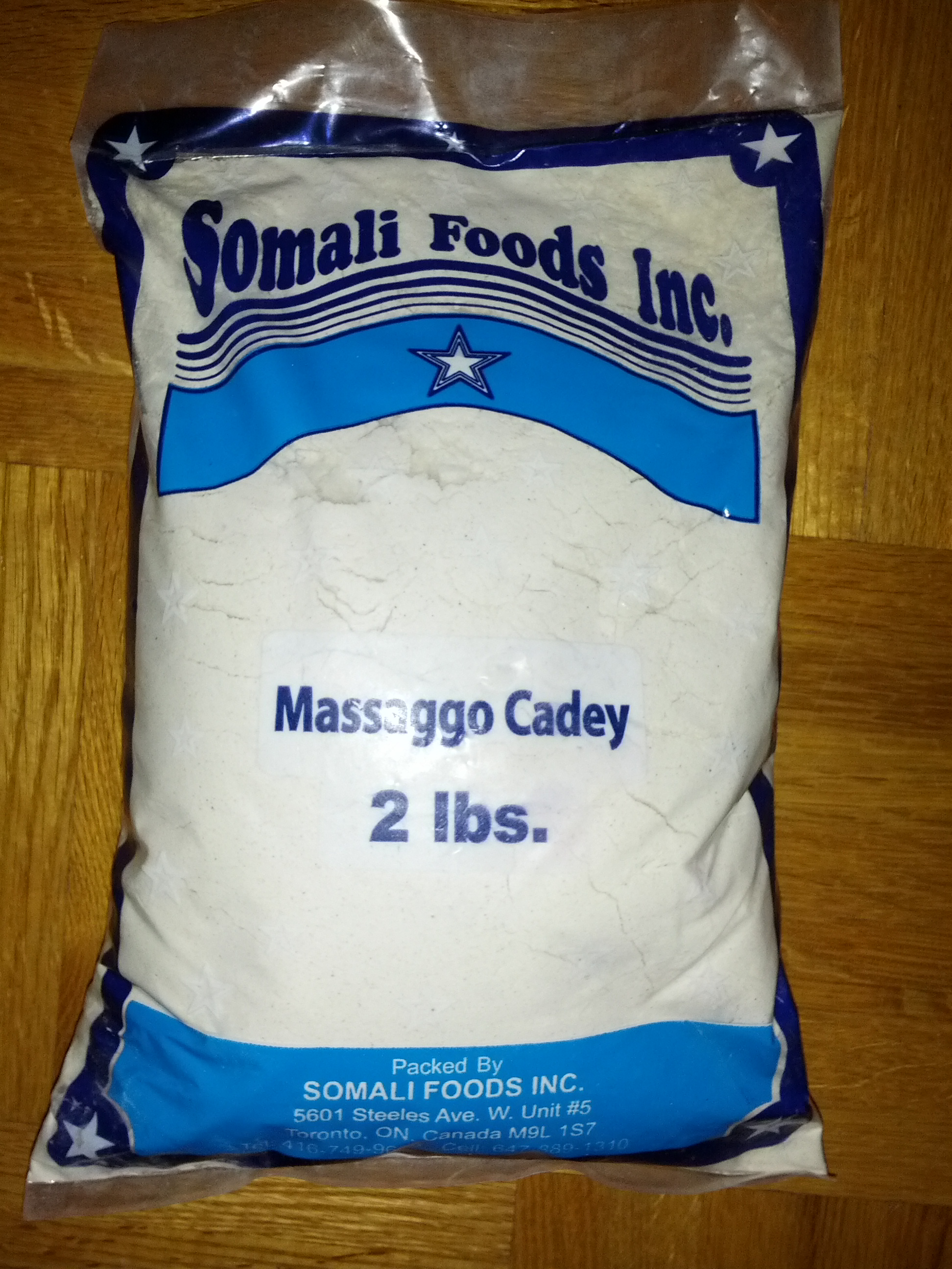 Bag of traditional Somali massaggo (sorghum) manufactured by Somali Foods Inc.